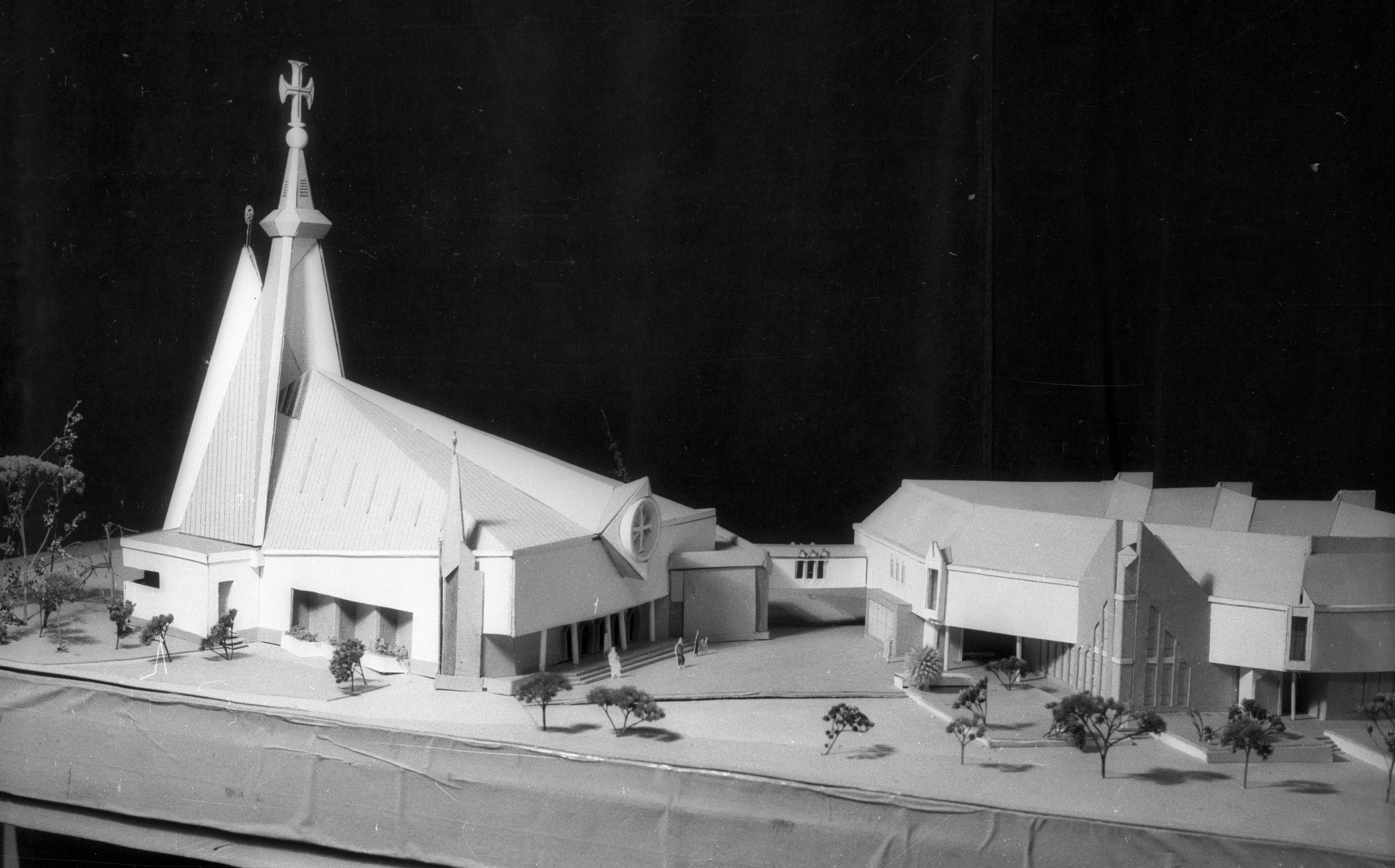 Model of św. Jerzy (st. George) church in Poznań, Poland